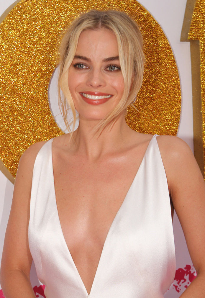 SYDNEY, AUSTRALIA - JANUARY 23 Margot Robbie arrives at the Australian Premiere of 'I, Tonya' on January 23, 2018 in Sydney, Australia photo by Eva Rinaldi